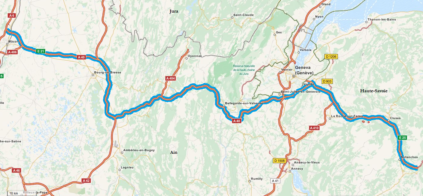 Map of the French A 40 highway, from Mâcon (Saône-et-Loire) to Saint-Gervais-les-Bains (Haute-Savoie).